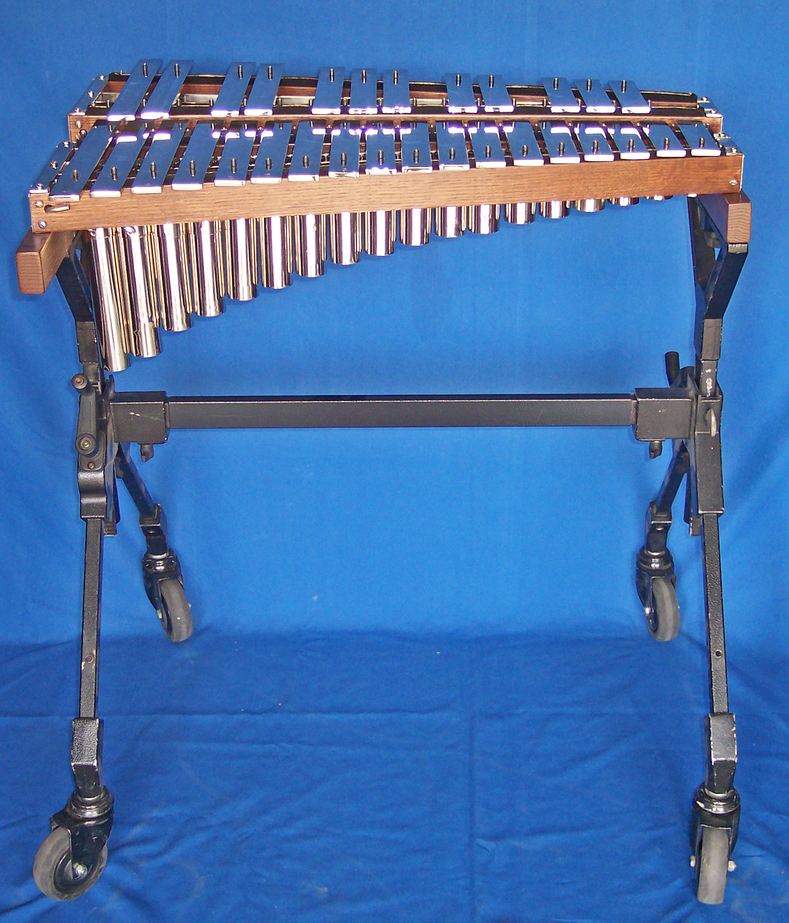 Song Bells (by Deagan), range G4-C7, courtesy L.A. Percussion Rentals. Other information See User:Xylosmygame for more information. Xylosmygame (talk) 19:00, 4 September 2012 (UTC)